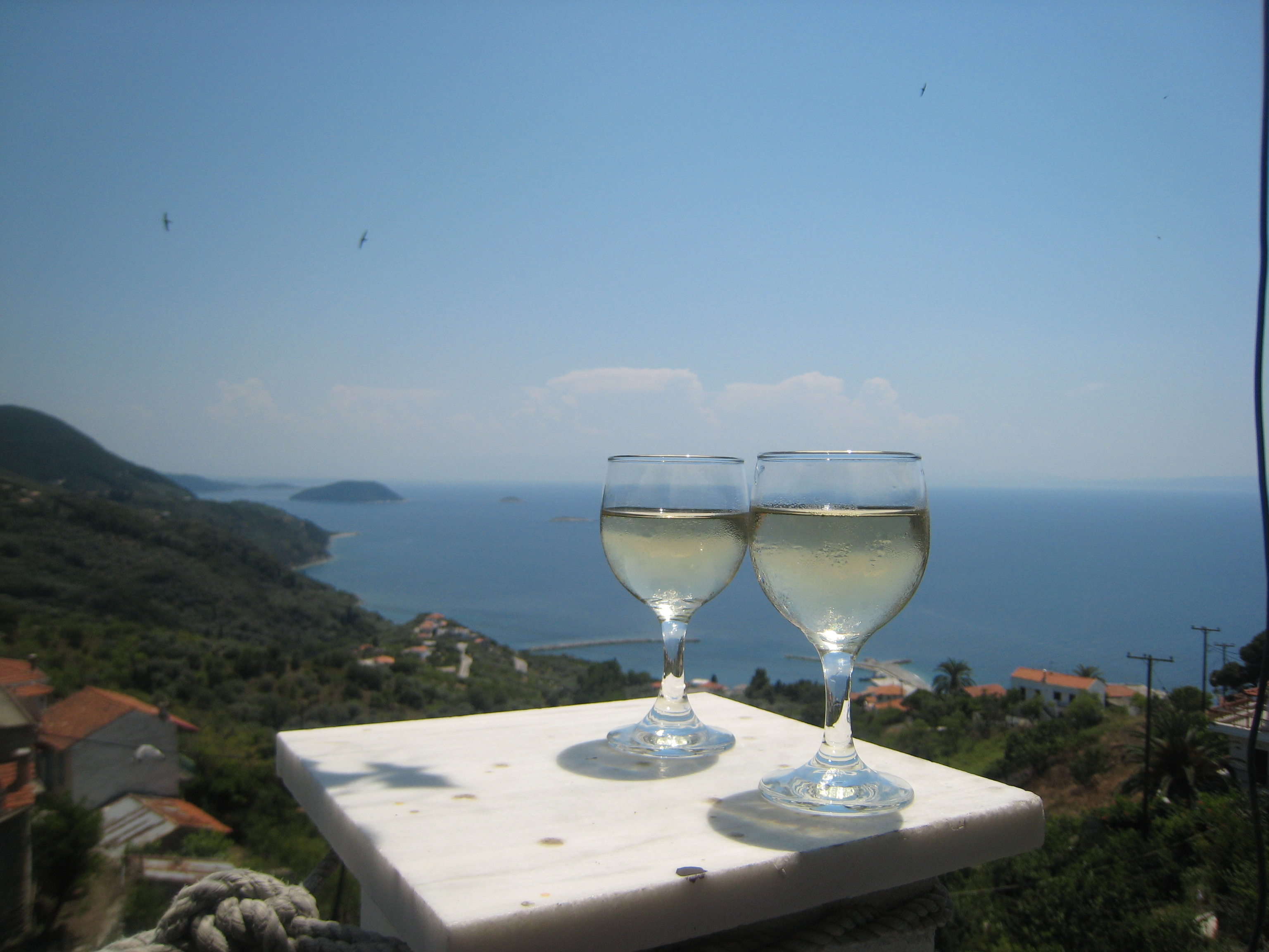 Two glasses of the Greek wine retsina. The lighting in the background is influencing the appearance of the wine.